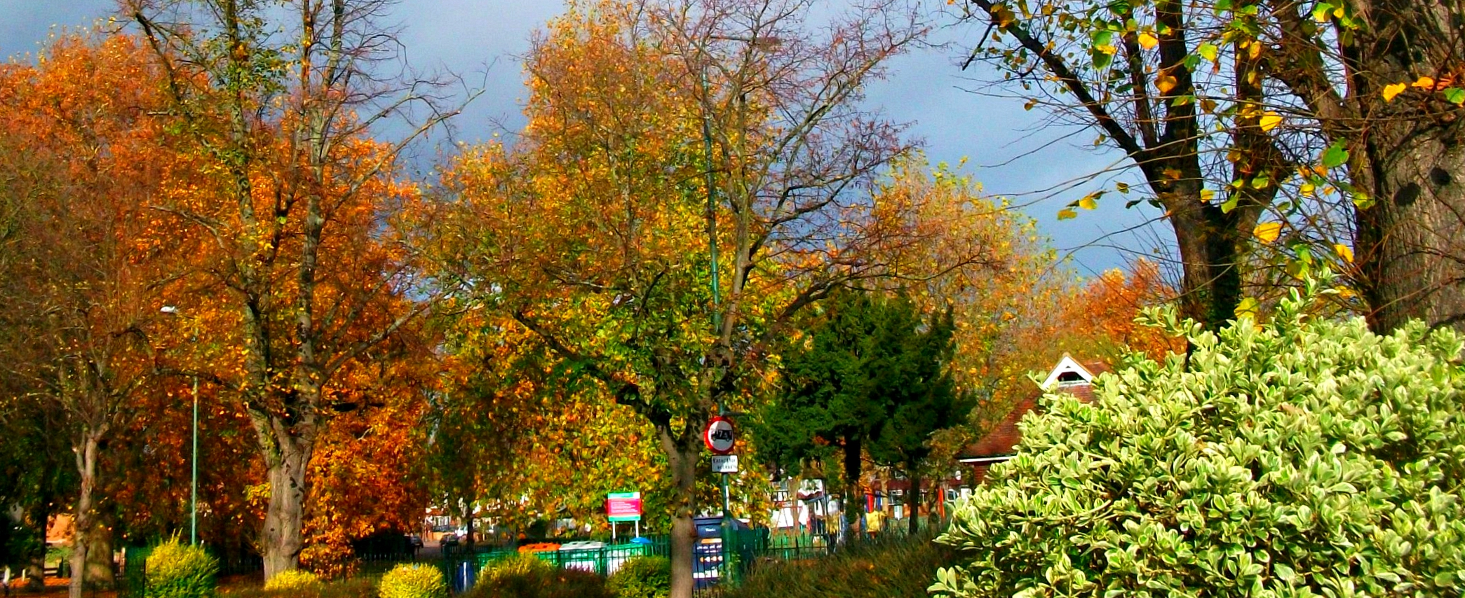 Sutton Green Sutton Surrey seen in various shades of greens and browns. 17/11/11.